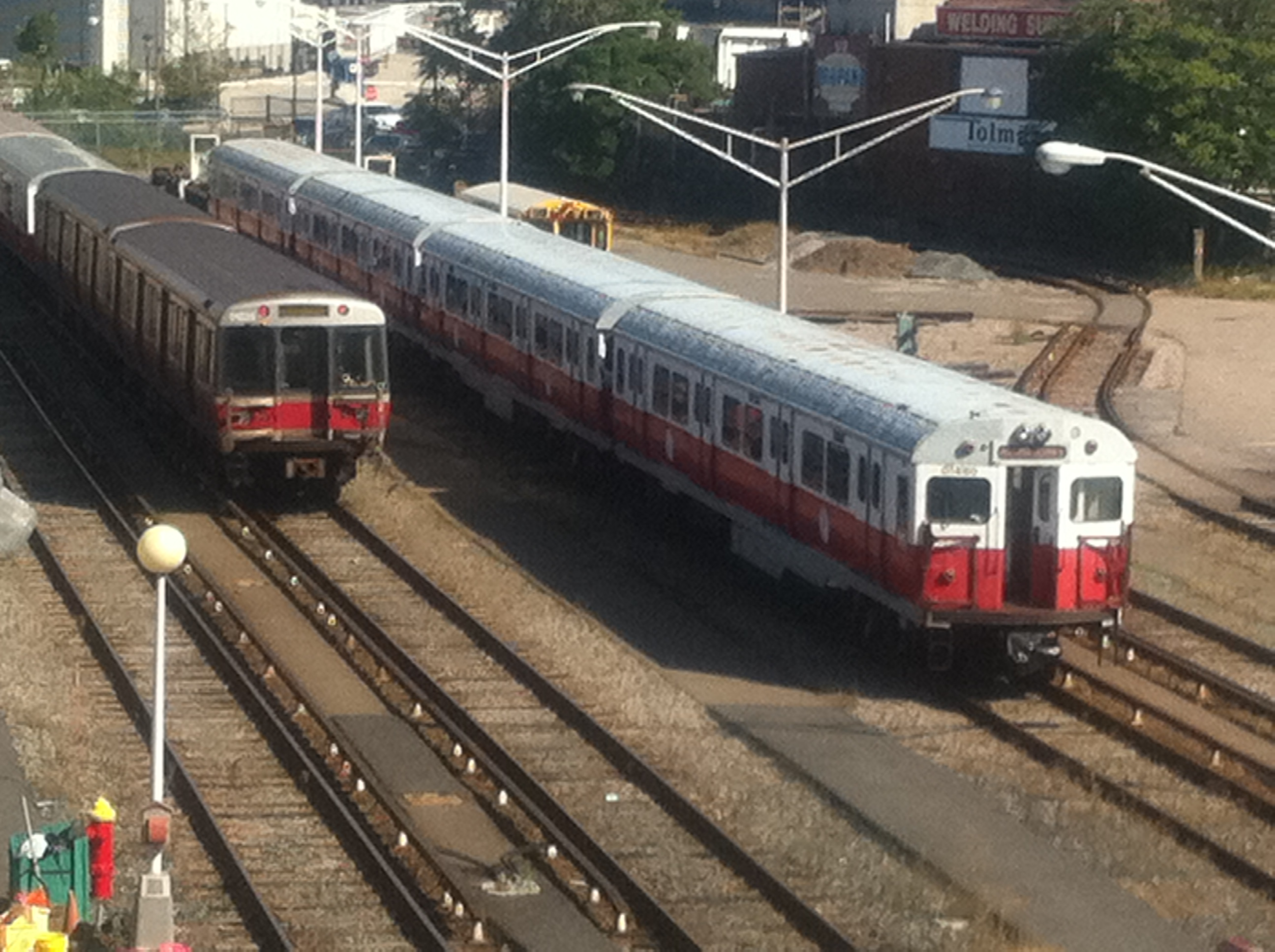 MBTA Red Line trainsets at Cabot Yard (2011). 1800 series on left, 1400 series on right.